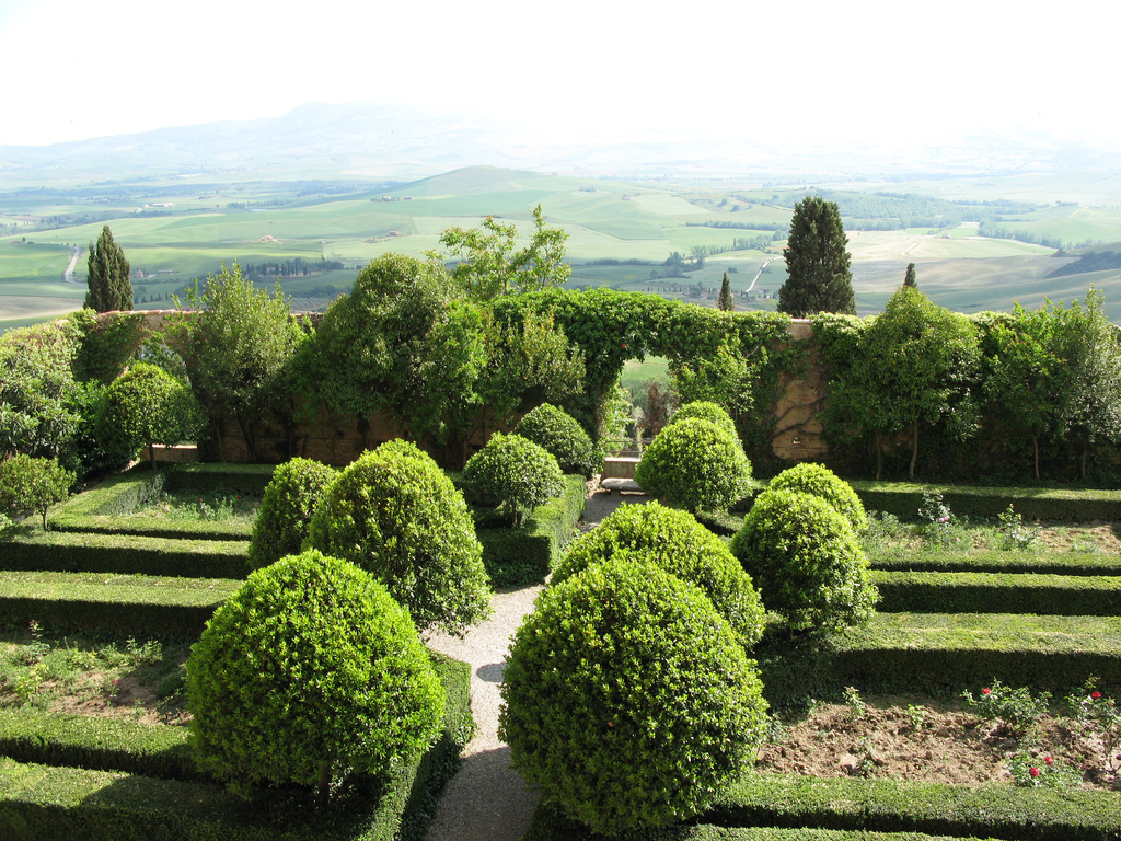 see above